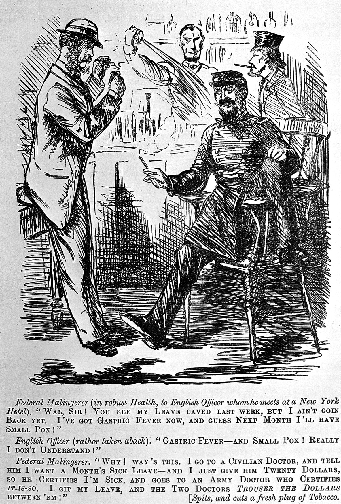 Soldier on 'Sick Leave'. General Collections Keywords: Naval and Military